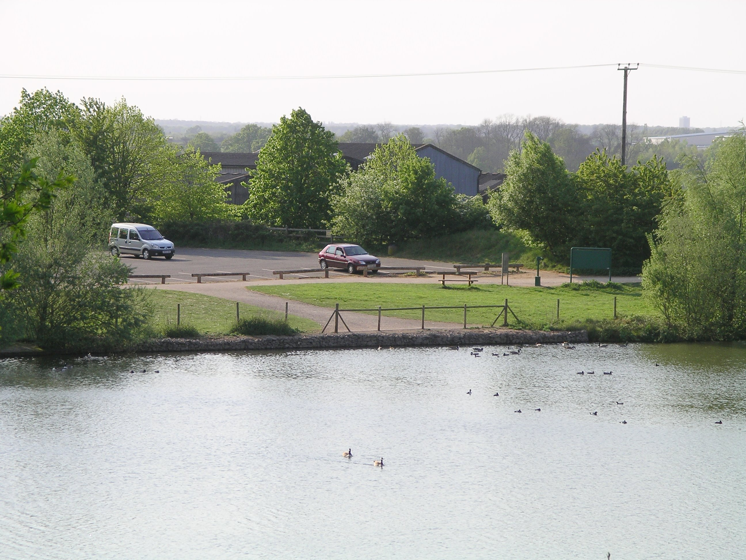 Photo of one of the Pools and car parks at Ryton Pools, Warwichshire, England